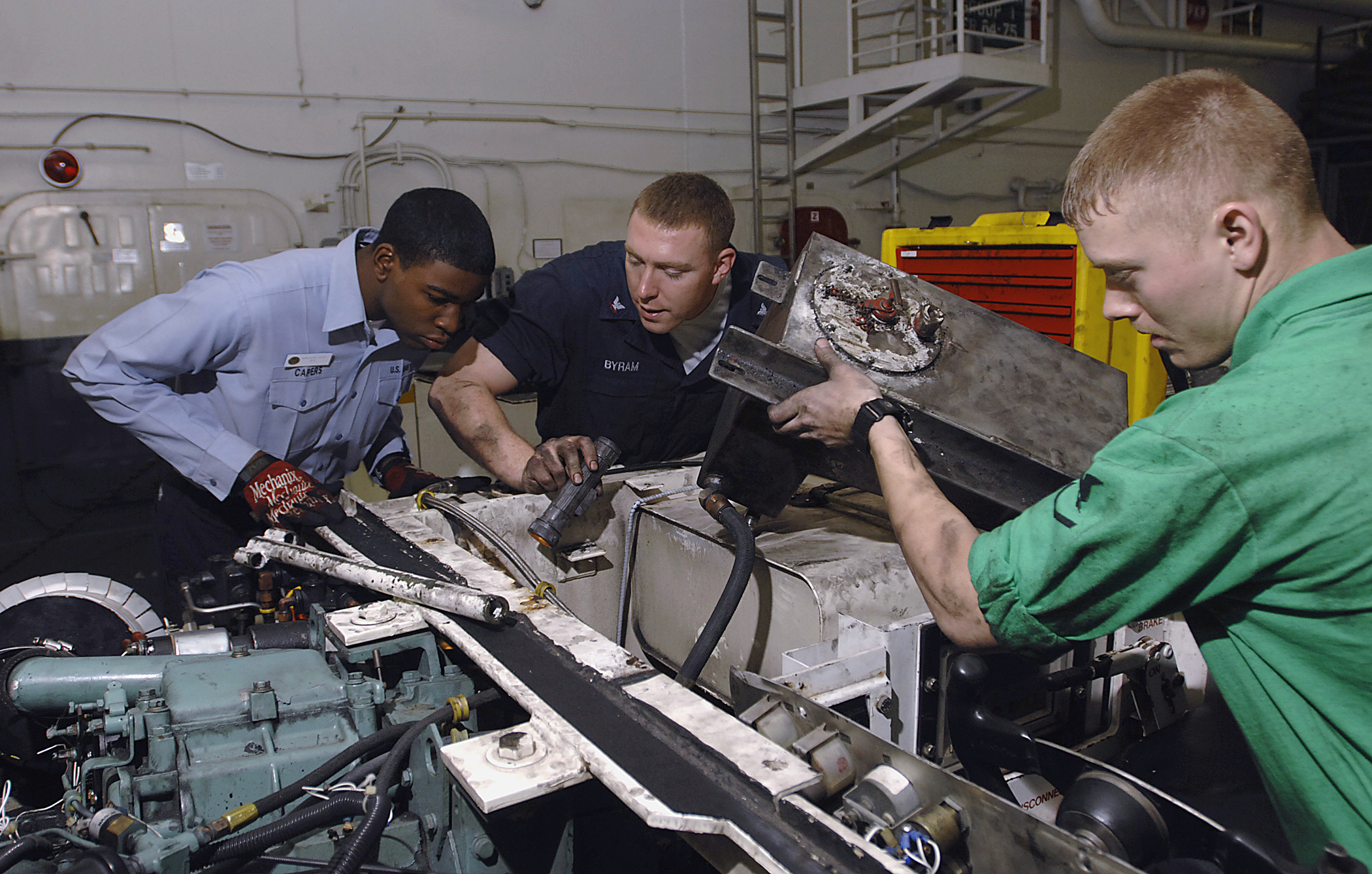 PERSIAN GULF (January 11, 2008) Aviation Support Equipment Technician Airman Shounie Capers, left, Aviation Support Equipment Technician 3rd Class William Byrum and Aviation Support Equipment Technician 3rd Class James Calderis replace the ring gear of a starter in a tractor used for transporting aircraft throughout the hangar bay of the Nimitz-class nuclear-powered aircraft carrier USS Harry S. Truman (CVN 75). Truman and embarked Carrier Air Wing (CVW) 3 are on a scheduled deployment in support of maritime security operations. U.S. Navy photo by Mass Communication Specialist Seaman Justin Lee Losack (Released)